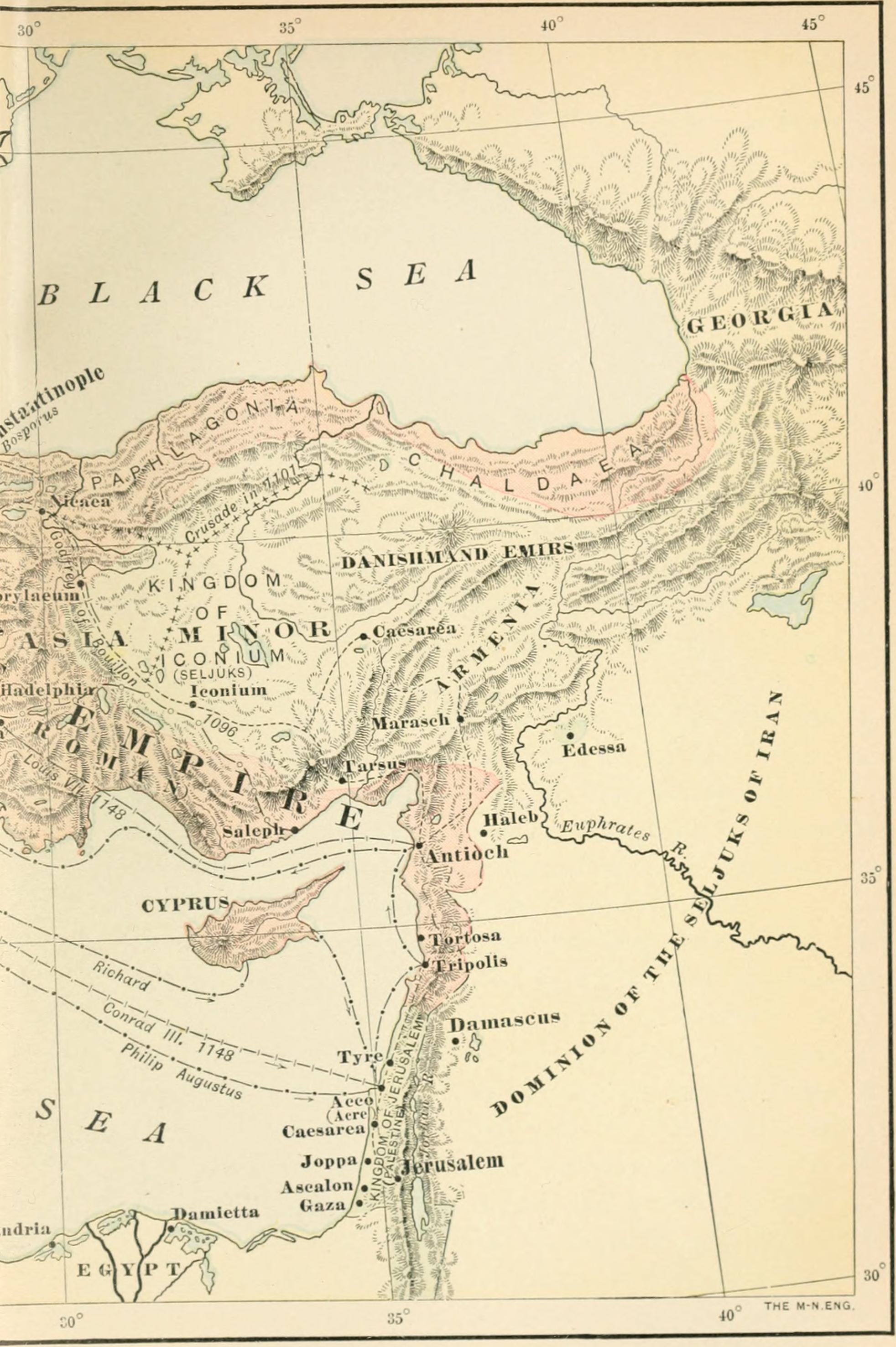 Title: Mediæval and modern history Year: 1902 (1900s) Authors: Myers, P. V. N. (Philip Van Ness), 1846-1937 Subjects: Middle Ages History, Modern Publisher: Boston, London, Ginn & company Text Appearing Before Image: ' Text Appearing After Image: ^^ Caesure ^ ~ Holy Lance and Ordeal of Bartholomew 229 set out for Syria. At a place called Dorylaeum, in Phrygia,the Turks fell upon and almost overwhelmed one of thecolumns before the other could render assistance. But theprowess of the Christian knights at last achieved a completevictory over the Turkish hordes. After this defeat the Moslems did not risk another en-counter, but resorted to desolating the country in front of theLatin army. So thoroughly was the work done, that the cru-saders marched for five hundred miles through a land desertedahke by friend and foe, and which yielded scarcely anythingfor themselves or their animals. Almost all their horses died,and their own ranks were terribly thinned. Arriving at Antioch, at this time one of the most populouscities of the East, the crusaders at once invested the place.After a siege of seven months, the city fell into their handsthrough treachery (1098). 199. The Holy Lance and the Ordeal of Bartholomew. —Scarcely w